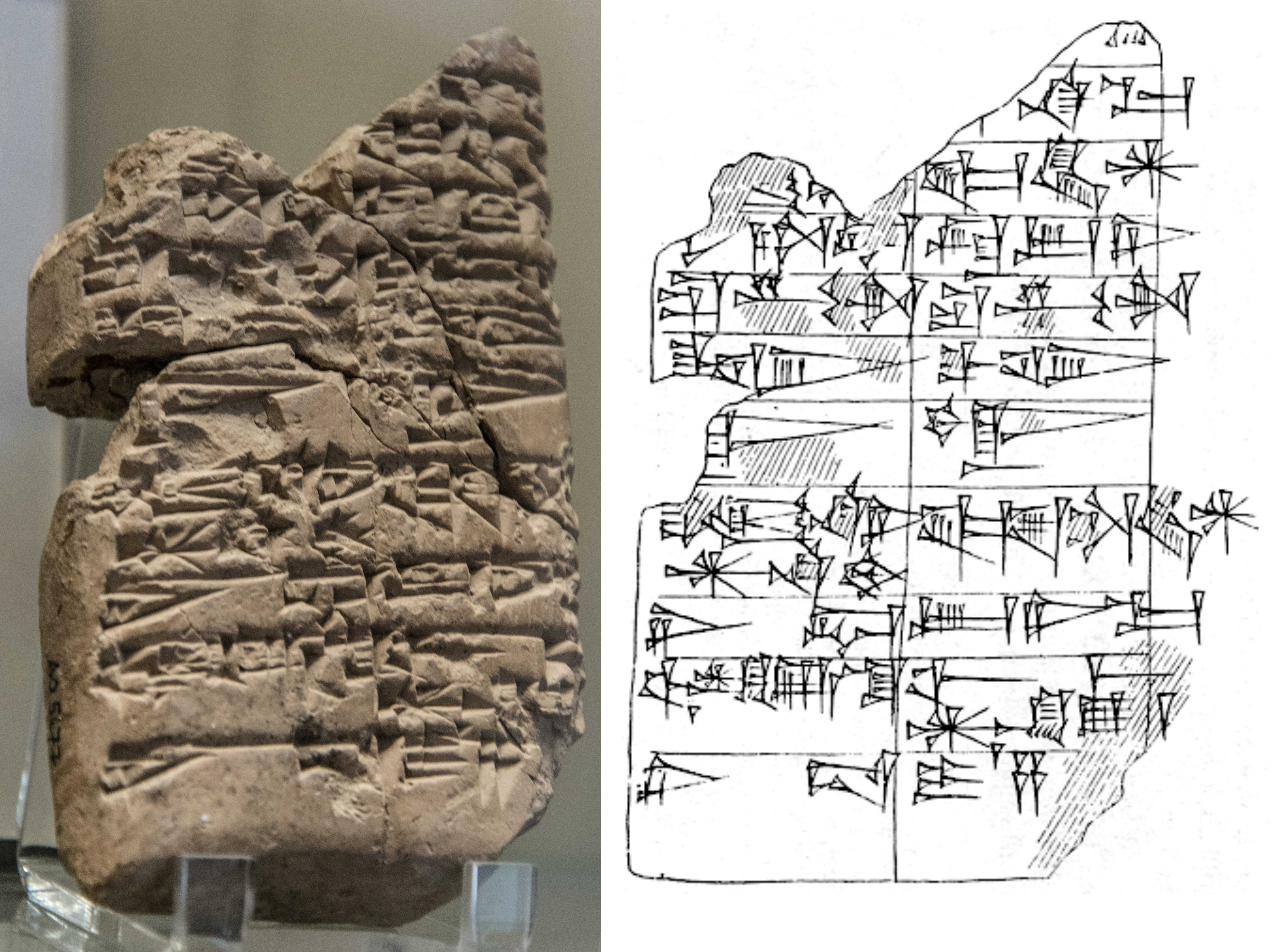 AO 5477 (photograph and transcription)